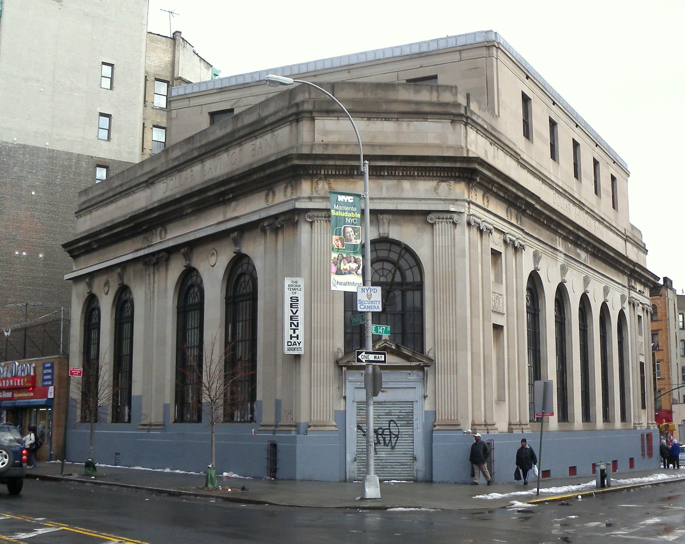 Looking east at Dollar Savings Bank building, headquarters 1919-1950, at 3d Avenue and 134th Street, now a church, on a rainy midday.